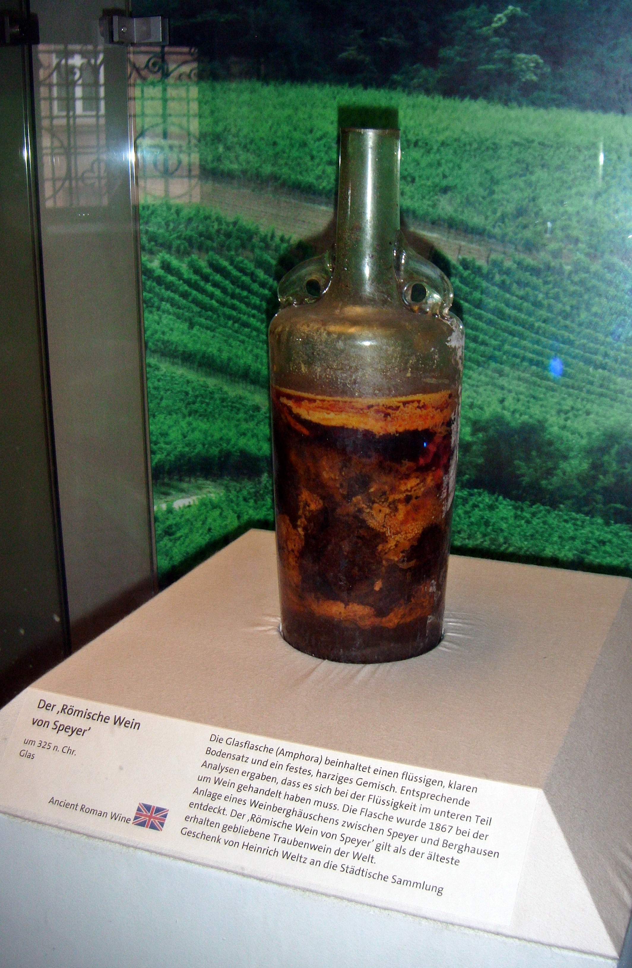 Römischer Wein, Speyer um 325, Bodenfund 1867, gilt als ältester erhaltener Traubenwein der Welt, Historisches Museum der Pfalz, Speyer